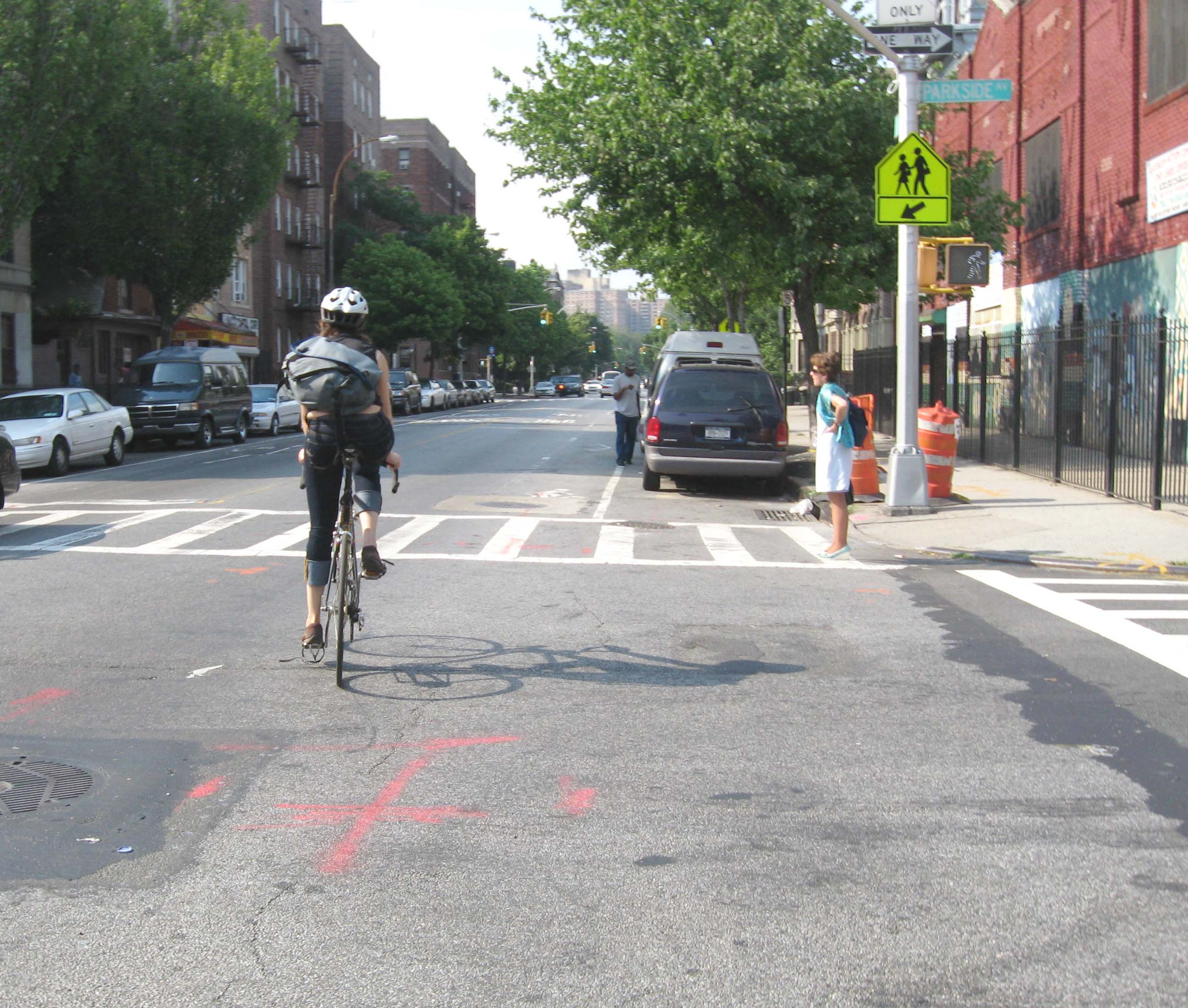 Looking north along Bedford Avenue at Parkside Avenue on a partly cloudy afternoon